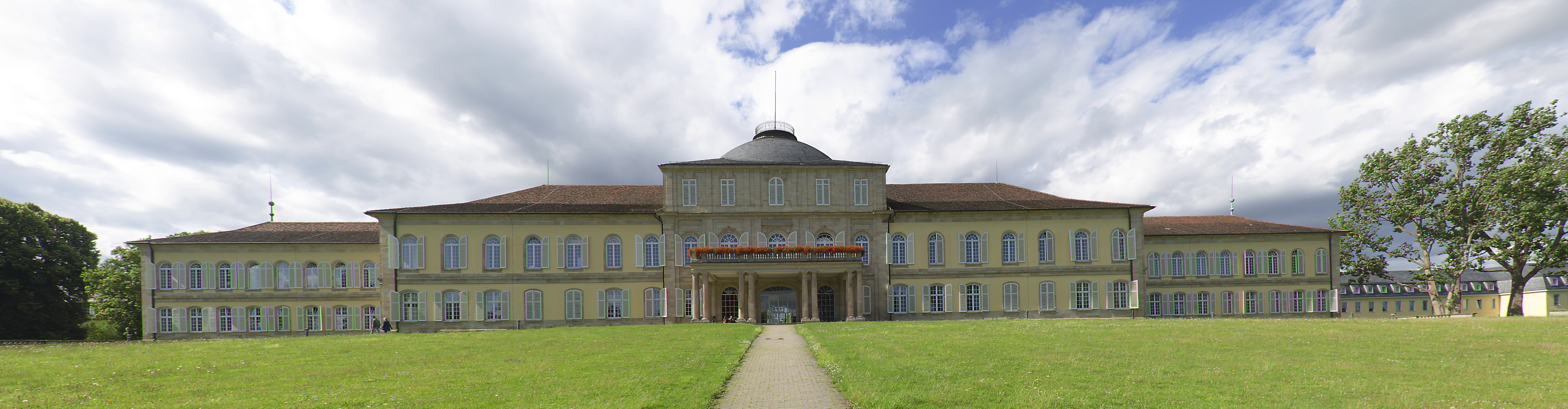 Hohenheim castle, Stuttgart, Germany. Panorama stitched from 4 images with Hugin.